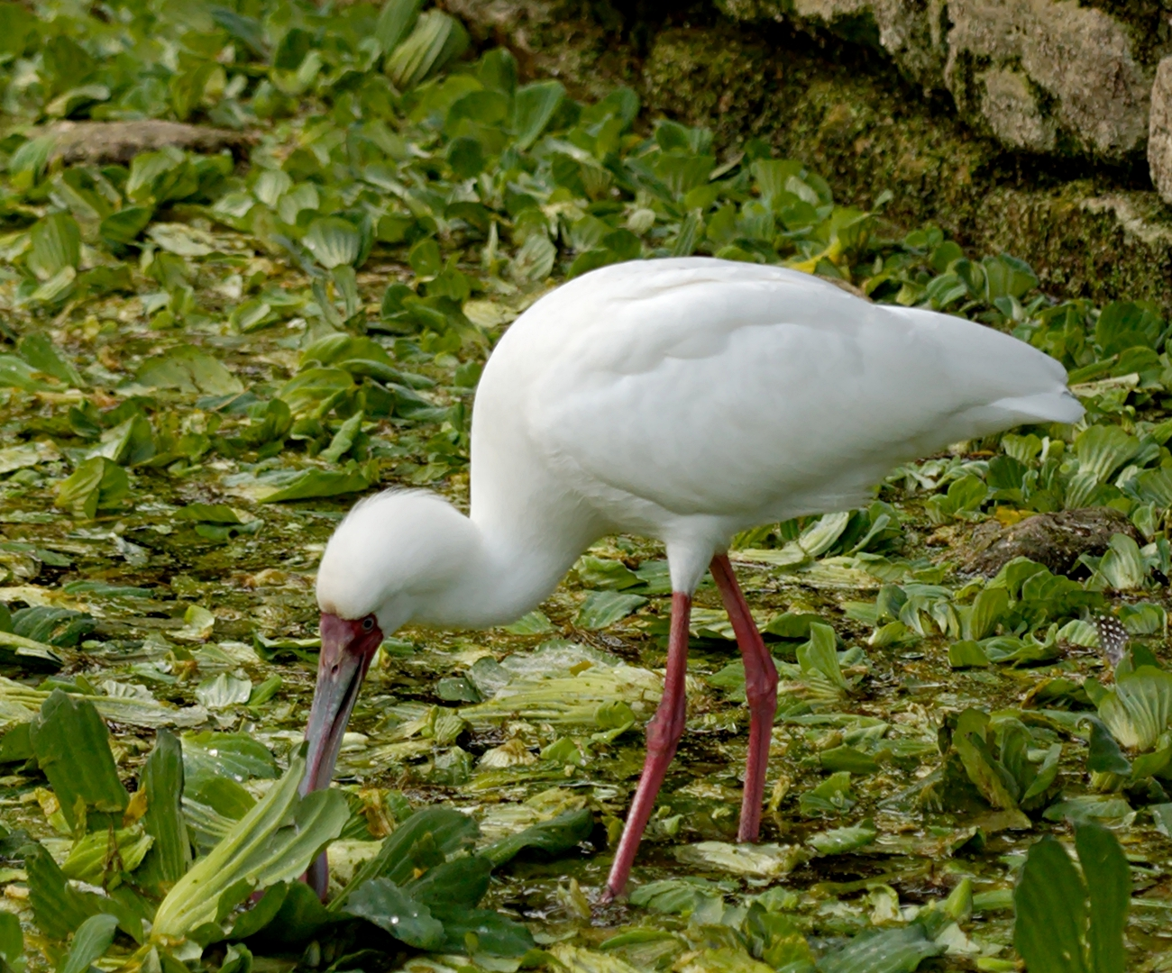 African spoonbill (Platalea alba) looking for food. From the African aviary at the zoological garden of the Jardin des Plantes in Paris.